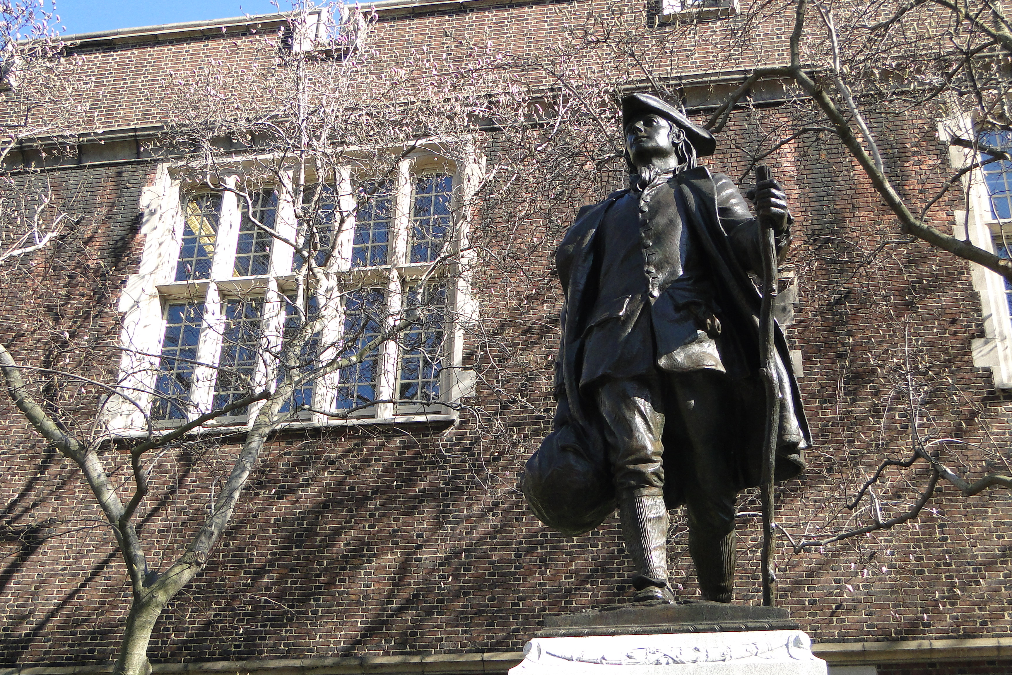 Architecture on University of Pennsylvania Campus - Young Ben Franklin Statue - Philadelphia - Pennsylvania - 04